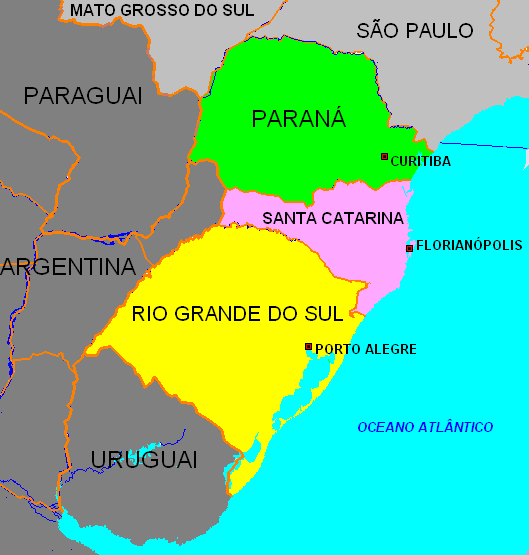 Political map of Southern Region of Brazil